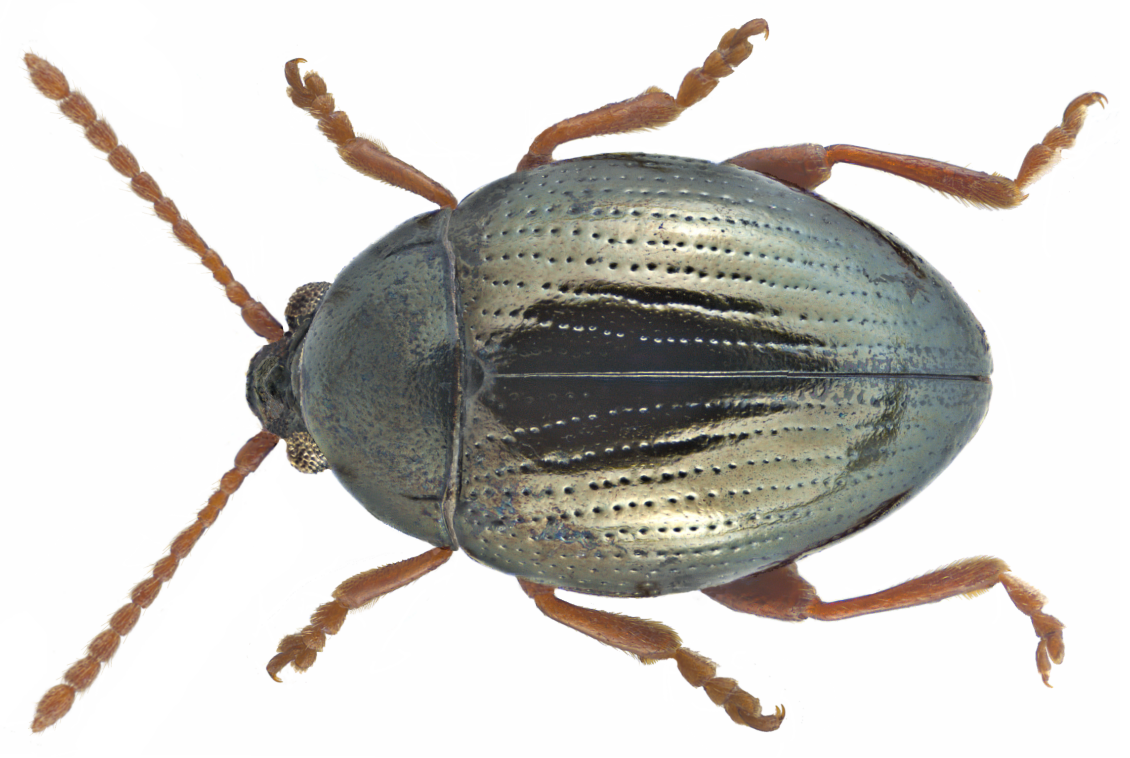 Family: Chrysomelidae Size: 2,5 mm (2,0 to 2,5 mm) Distribution: Alps, mountain range in Germany and the Northern Balkan Peninsula Location: Austria, Kaernten, Kleinkirchheim, 1800 m leg.det. U.Schmidt, 17.VI.1981 Photo: U.Schmidt, 2015